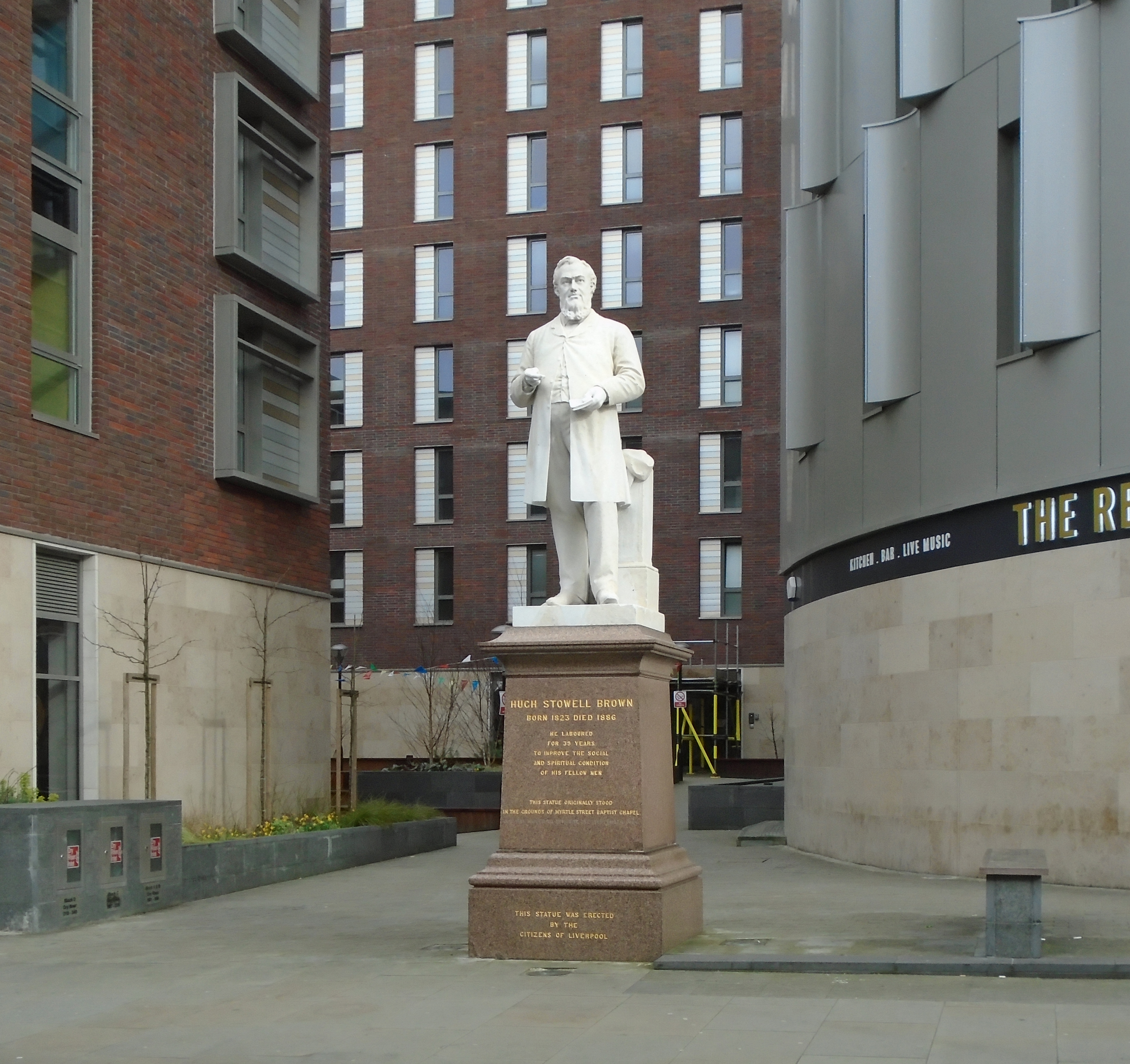 Statue of Hugh Stowell Brown in situ outside Hope Street Apartments, Liverpool